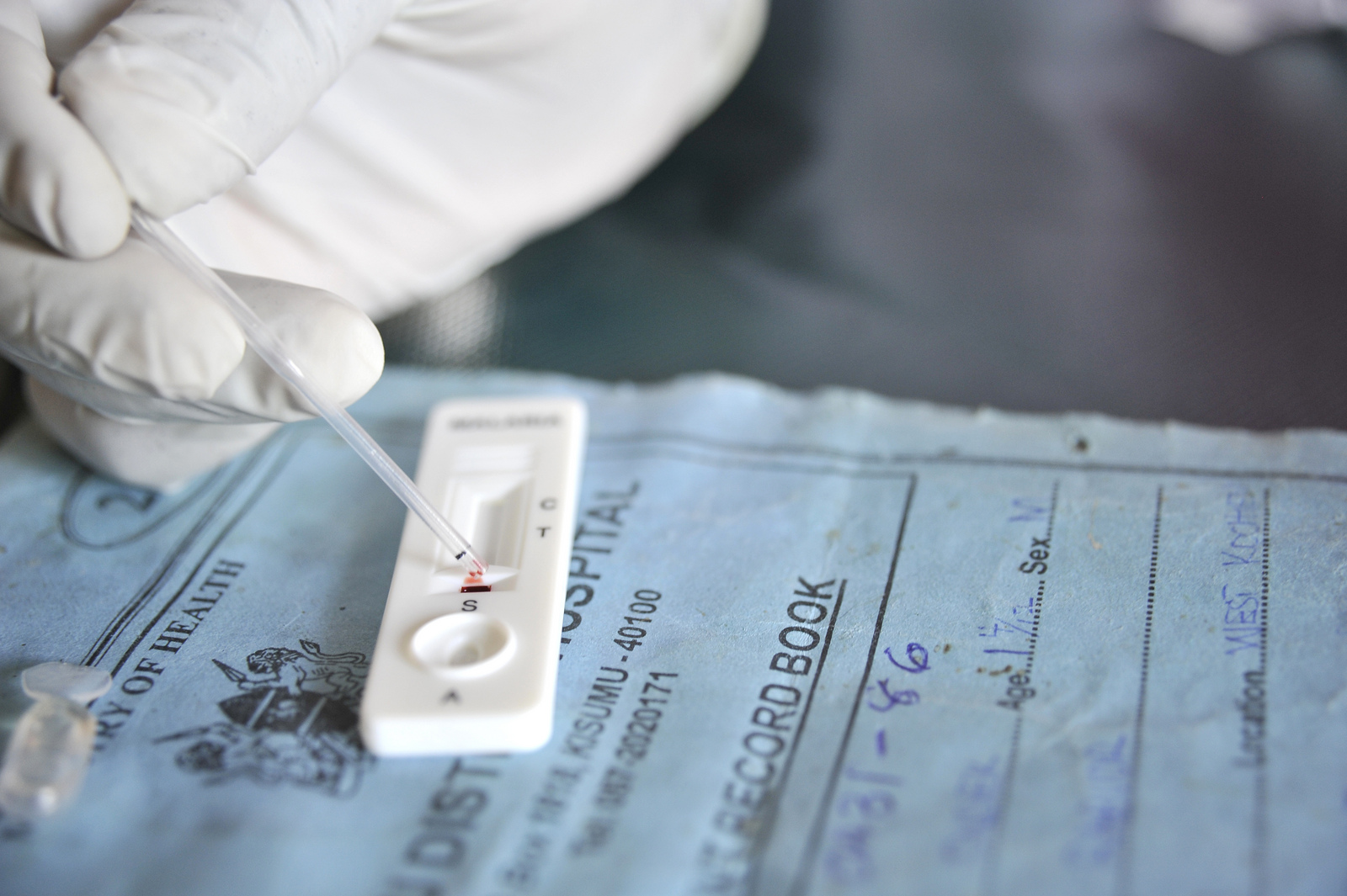 Malaria Rapid Diagnostic Test (RDT) being used at the Rabuor Health Center in Kenya. RDT takes 20 minutes to produce a malaria diagnosis